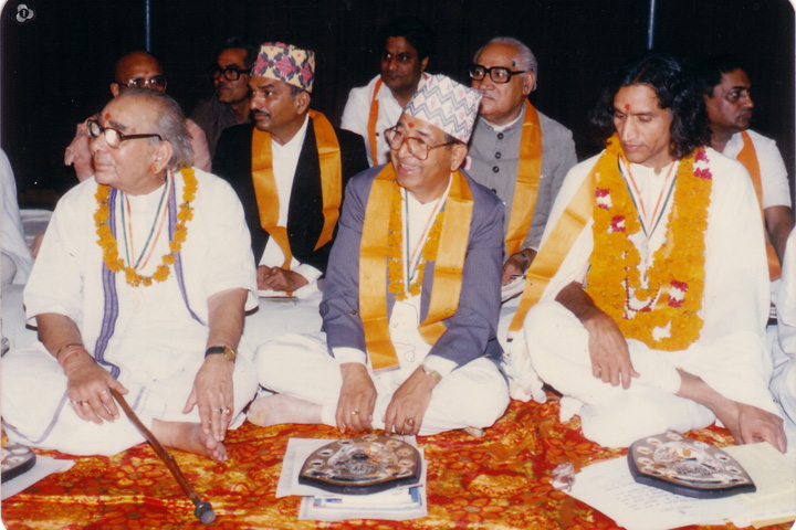 World Religious Parliament Awards in New Delhi, India. 1986. Yogi Amrit Desai was honored with the title of Jagadacharya